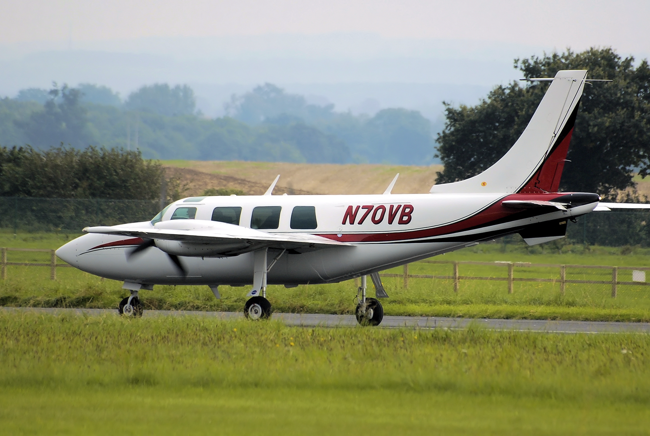 Piper PA-60-600 Aerostar (N70VB) at Kemble Airport 2008 Open Weekend, Gloucestershire, England. This aircraft was built in 1977.